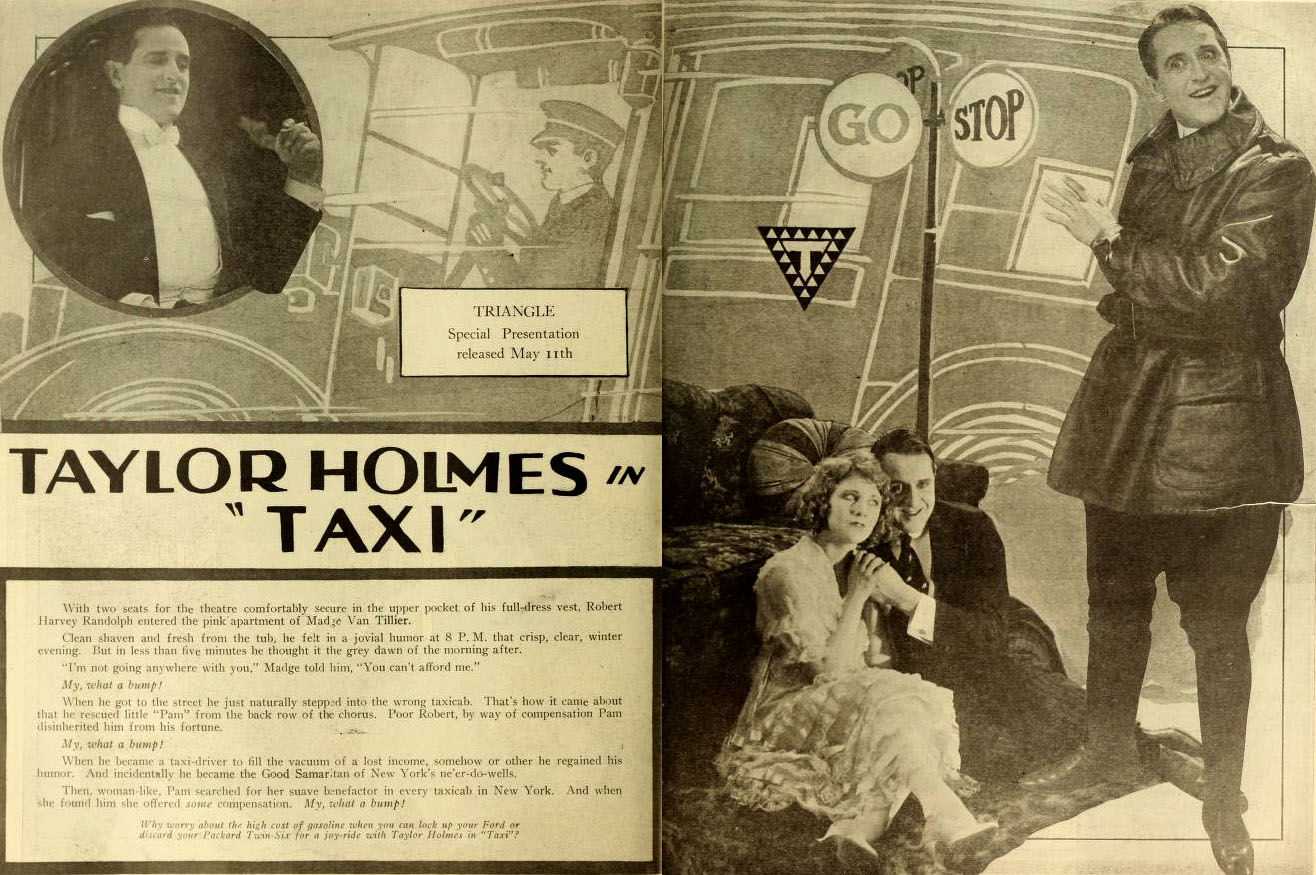 Advertisement, Moving Picture World, May 1919 for the film Taxi (1919).